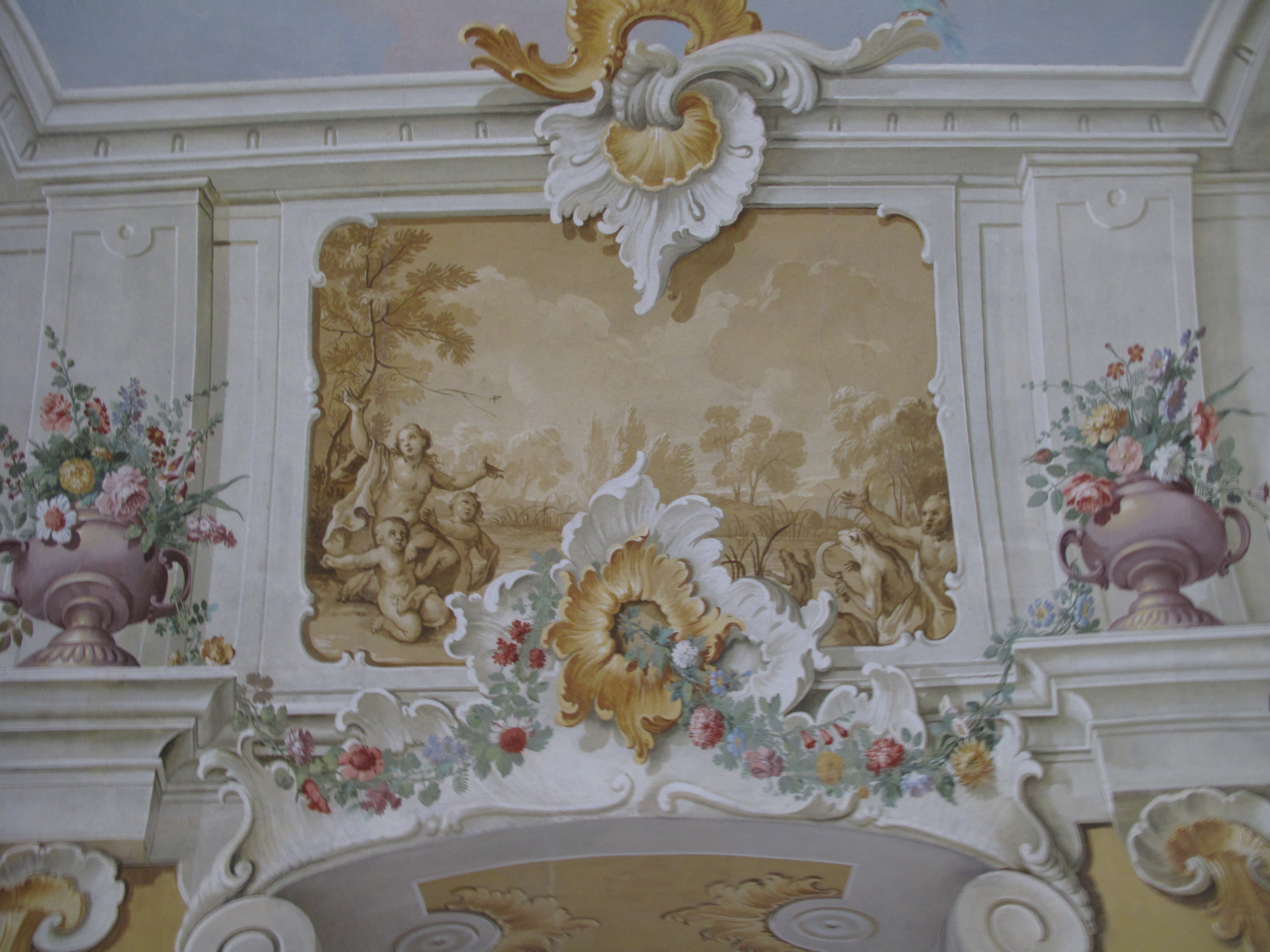 František Jakub Prokyš (1713–1791): fresco decoration of the second floor of Bellaria villa (1755-1757). Lethó with children (inspired via Ovidius Methamorphosis) with vases covered by flowers on the both sides and guirlanda in detail. Český Krumlov Castle gardens, Czech Republic.